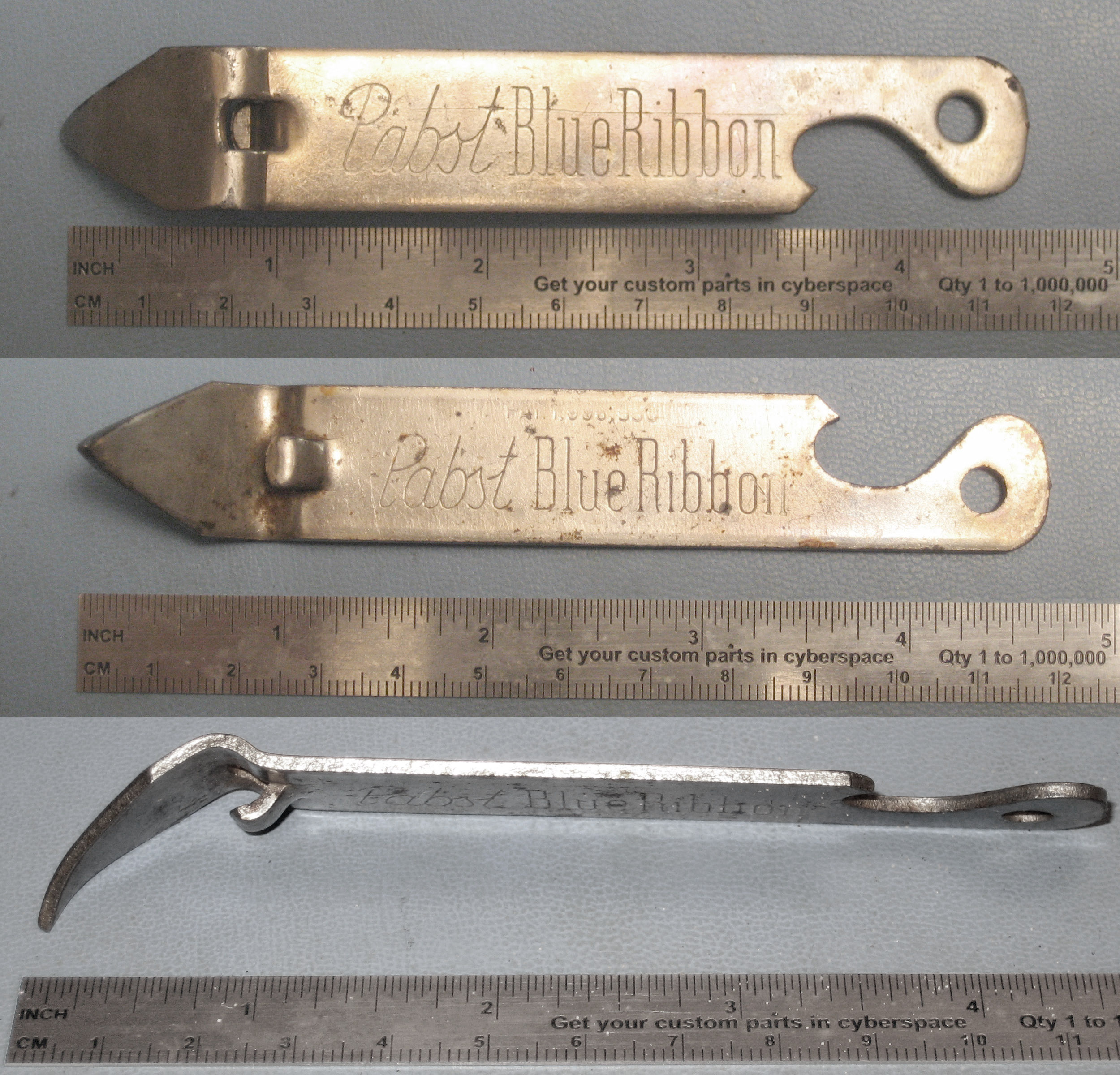 Three views of my grandfather's "church key" combination can piercer and bottle cap opener, bearing the name Pabst Blue Ribbon, a brand of beer produced by the Pabst Brewing Company of Milwaukee, Wisconsin. He likely bought this new in Milwaukee sometime in the late 1930s. The US Patent #1996550 stamp can be faintly seen on the front side.